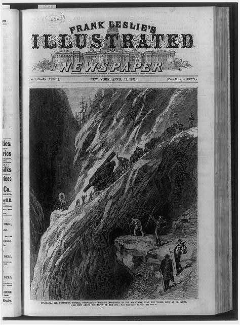 Newspaper image leadville mining - library of congress